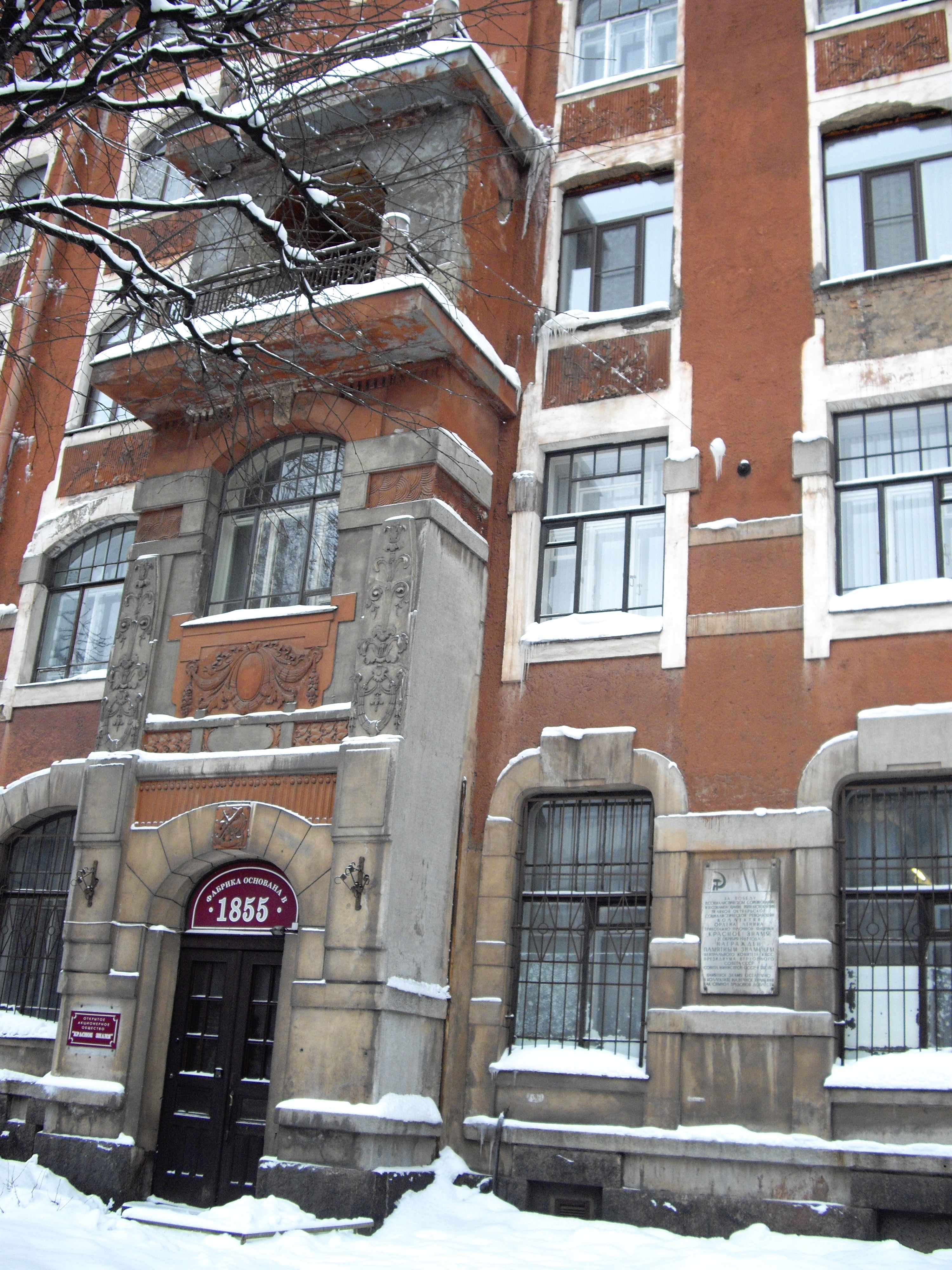 Krasnoe Znamya (Red Banner) factory in Saint-Petersburg, Russia. Main office building (architect S. P. Kondratiev, 1911)